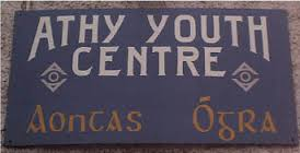 Aontas Ogra Banner